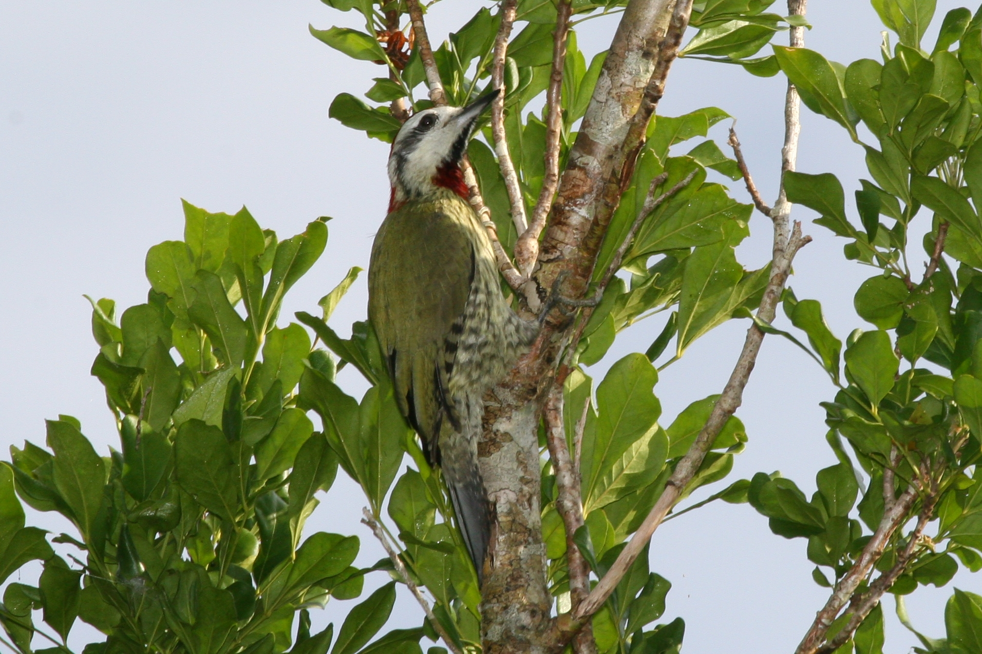 Cuban Green Woodpecker (Xiphidiopicus percussus)